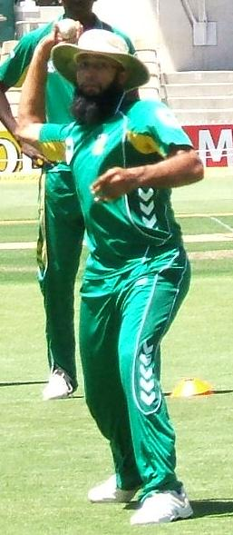 Hashim Amla at a training session at the Adelaide Oval